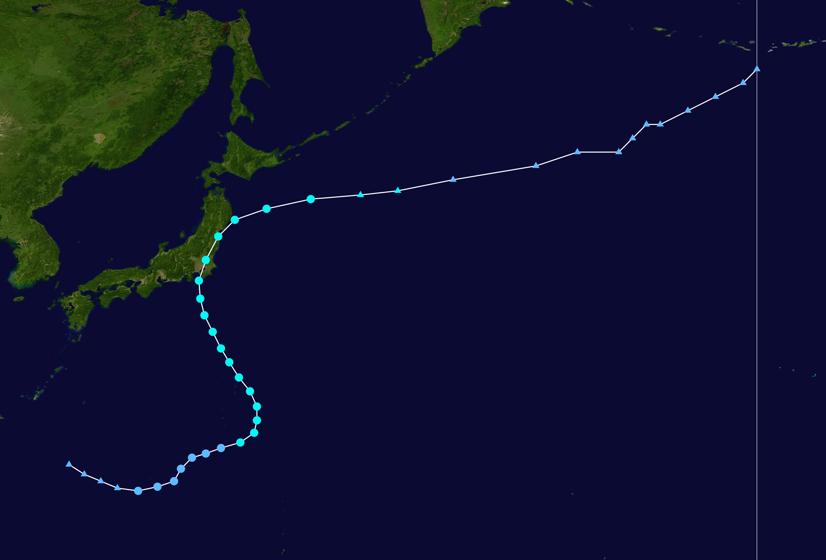 Tropical Storm Ruby 1985 track. Uses the color scheme from the Saffir-Simpson Hurricane Scale.